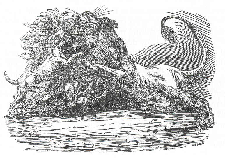 Title: Lion Bait Type: Wood engraving Background: The dogs would not give him a moment's respite and all three set on him again, while the poor animal howing with pain, threw his great paws awkwarkly upon them as they came.